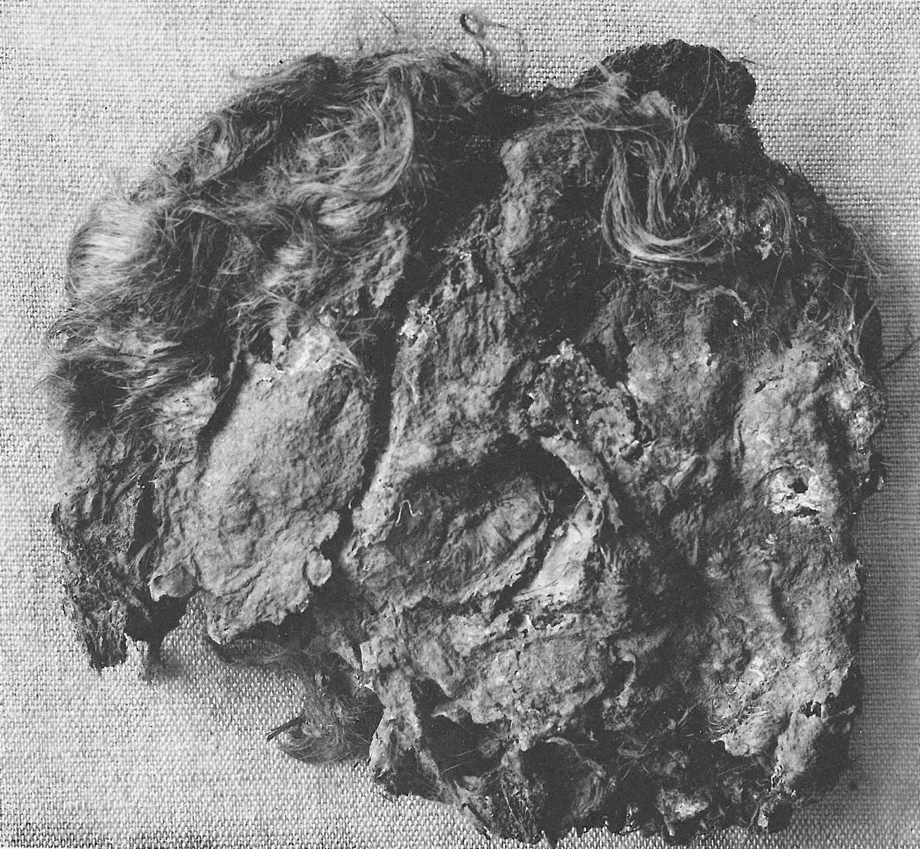 Early photoraph of the head of bog body Obenaltendorf Man.